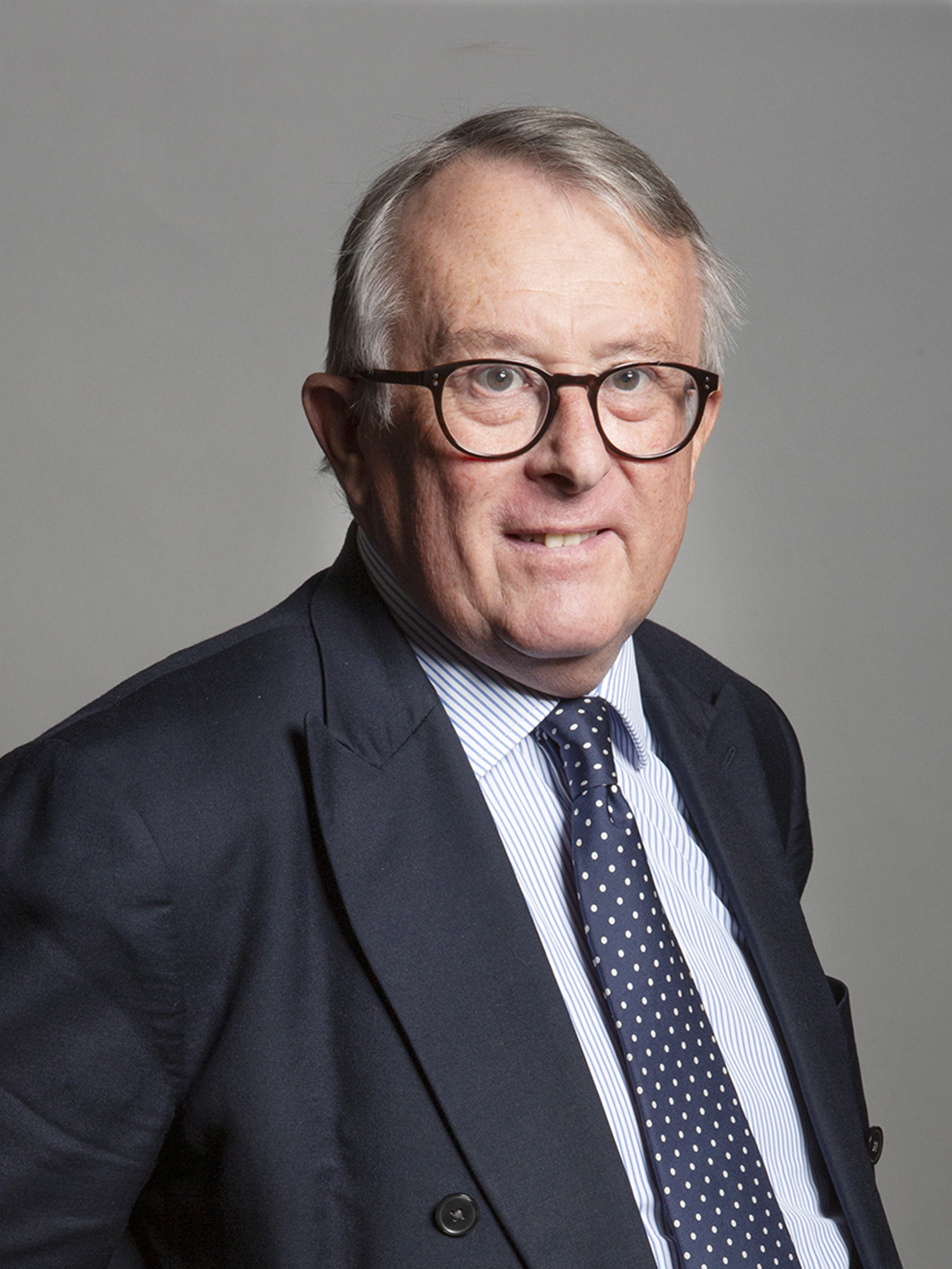 Official portrait of Jamie Stone MP 3×4 portrait of Jamie Stone